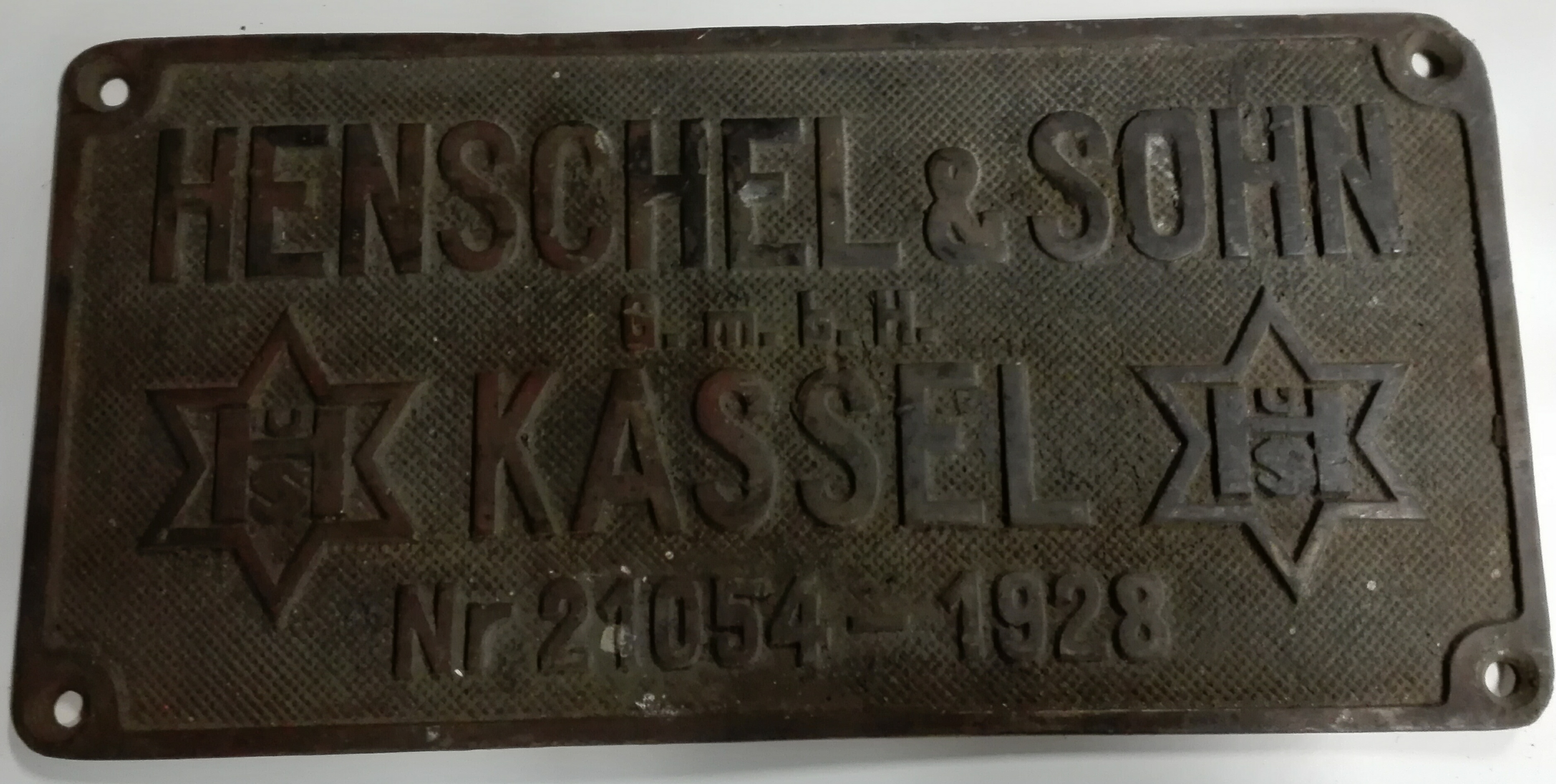 Gf Henschel